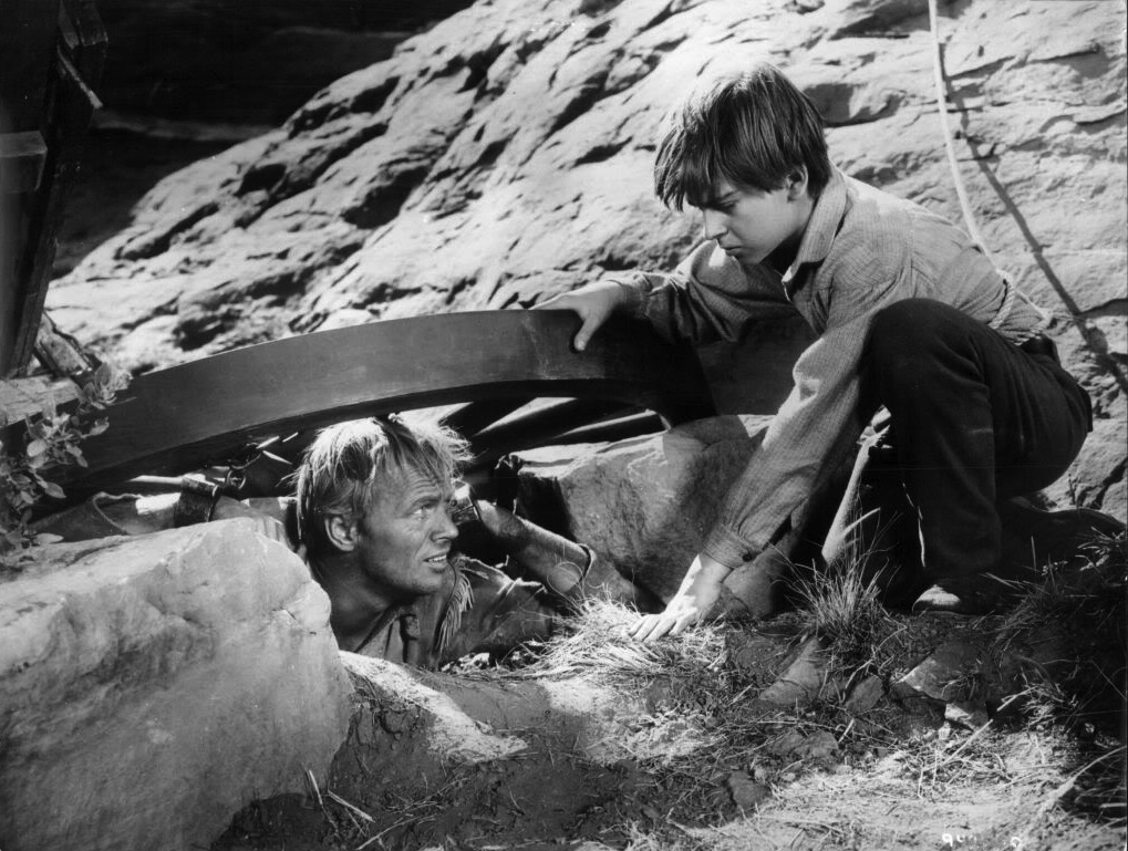 Publicity photo of American actors, Richard Widmark (left) and Tommy Rettig (right), promoting the 1956 20th Century Fox feature film, The Last Wagon.